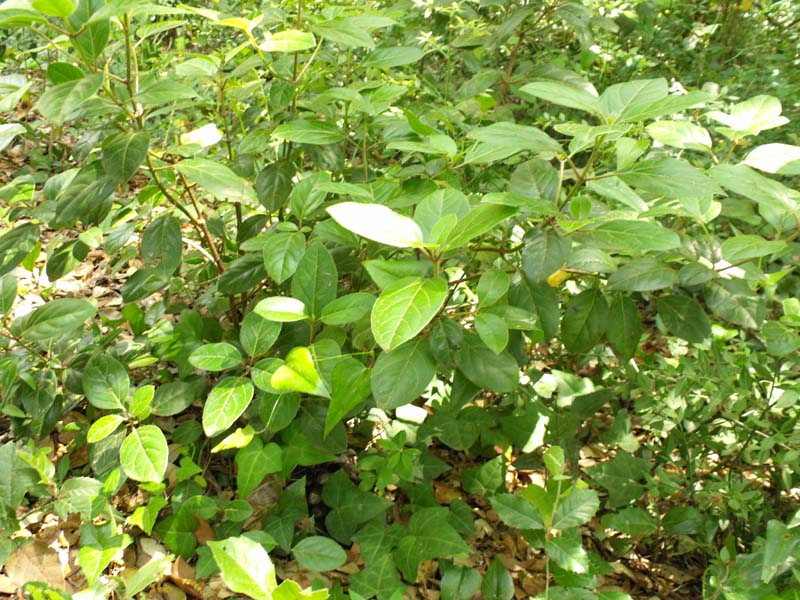 Wild Viburnum tinus leaves. Photographed in Castel Fusano pine forest (Rome province, Latium, central Italy). Photo by Massimiliano Marcelli.